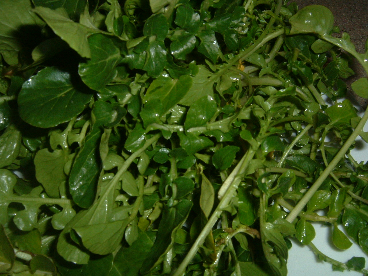 Watercress (Nasturtium officinale) is a dark green vegetable with rounded leaves attached to a long stem. From